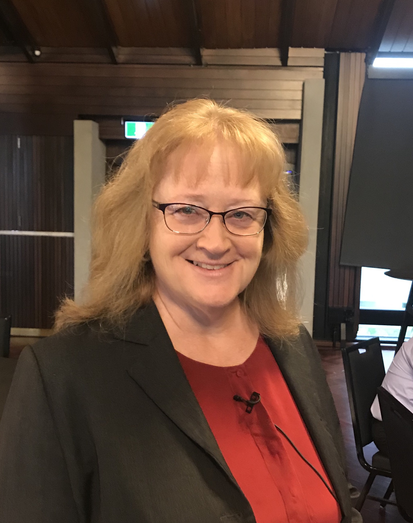 Susan Krumdieck in 2020